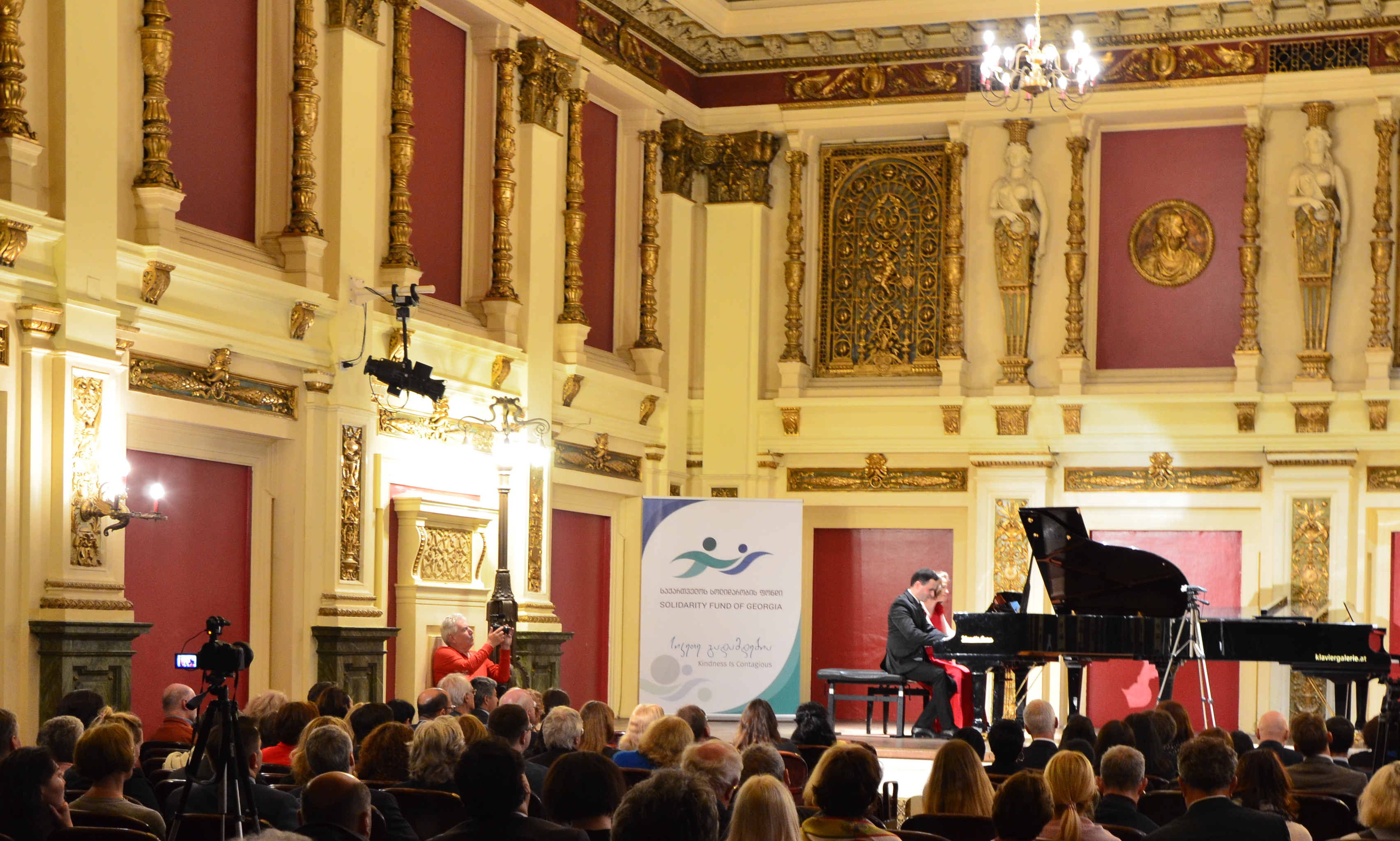 The Latsos Piano Duo giving a charity concert for children suffering with oncological disease